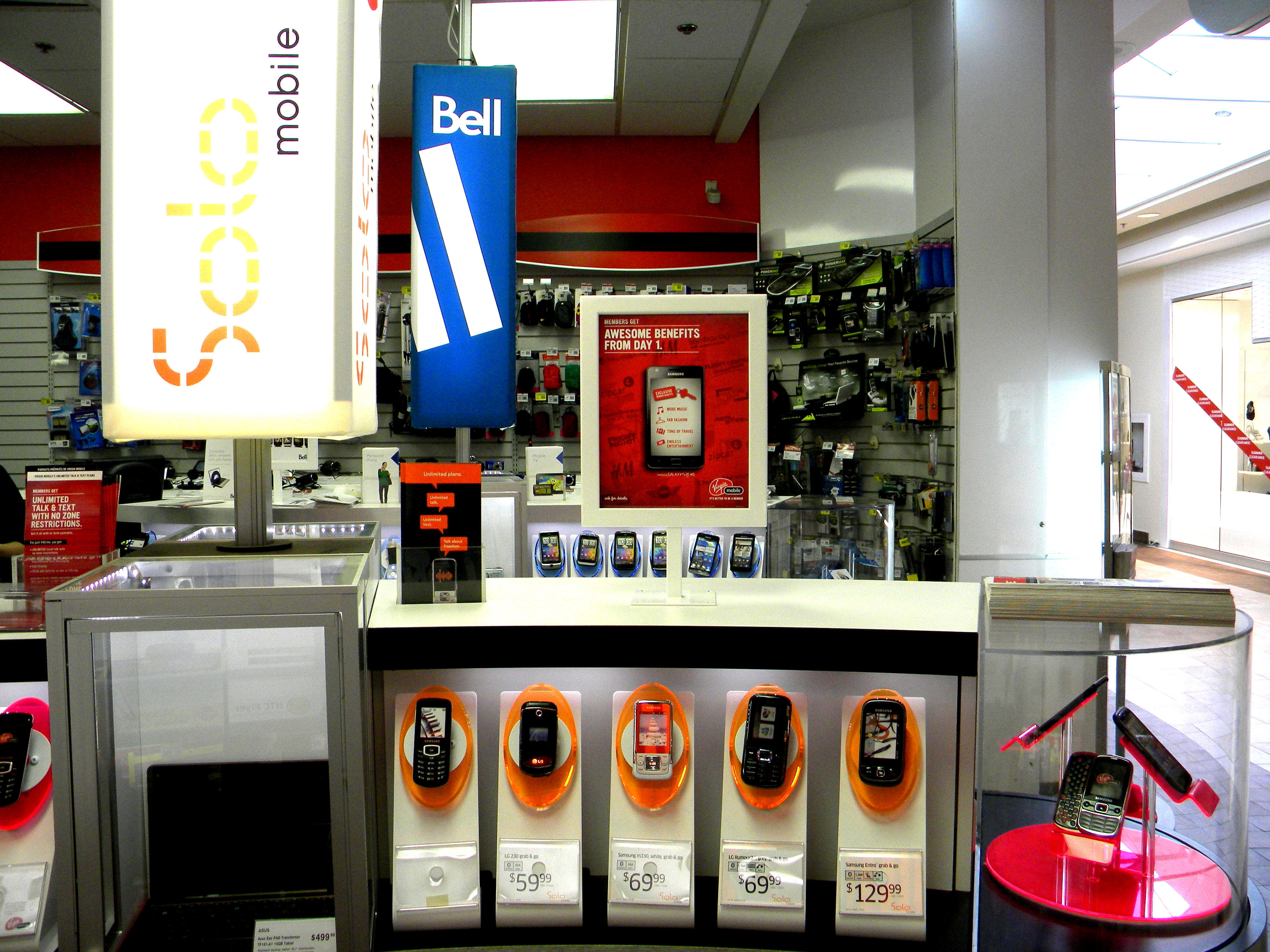 Solo Mobile display at The Source store.